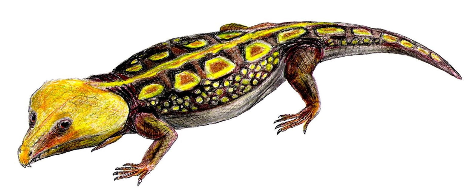 Life restoration of Labidosaurus hamatus.